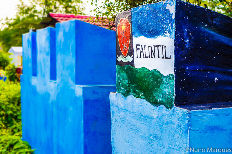 Last resting place of the mortal remaining of the fallen FALINTIL heroes of Laleia's village in Laleia's cemetery